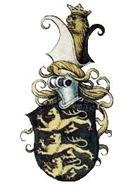 Arms of the Emperor of Bulgaria, by Miltenberger Wappenbuch (14th century).